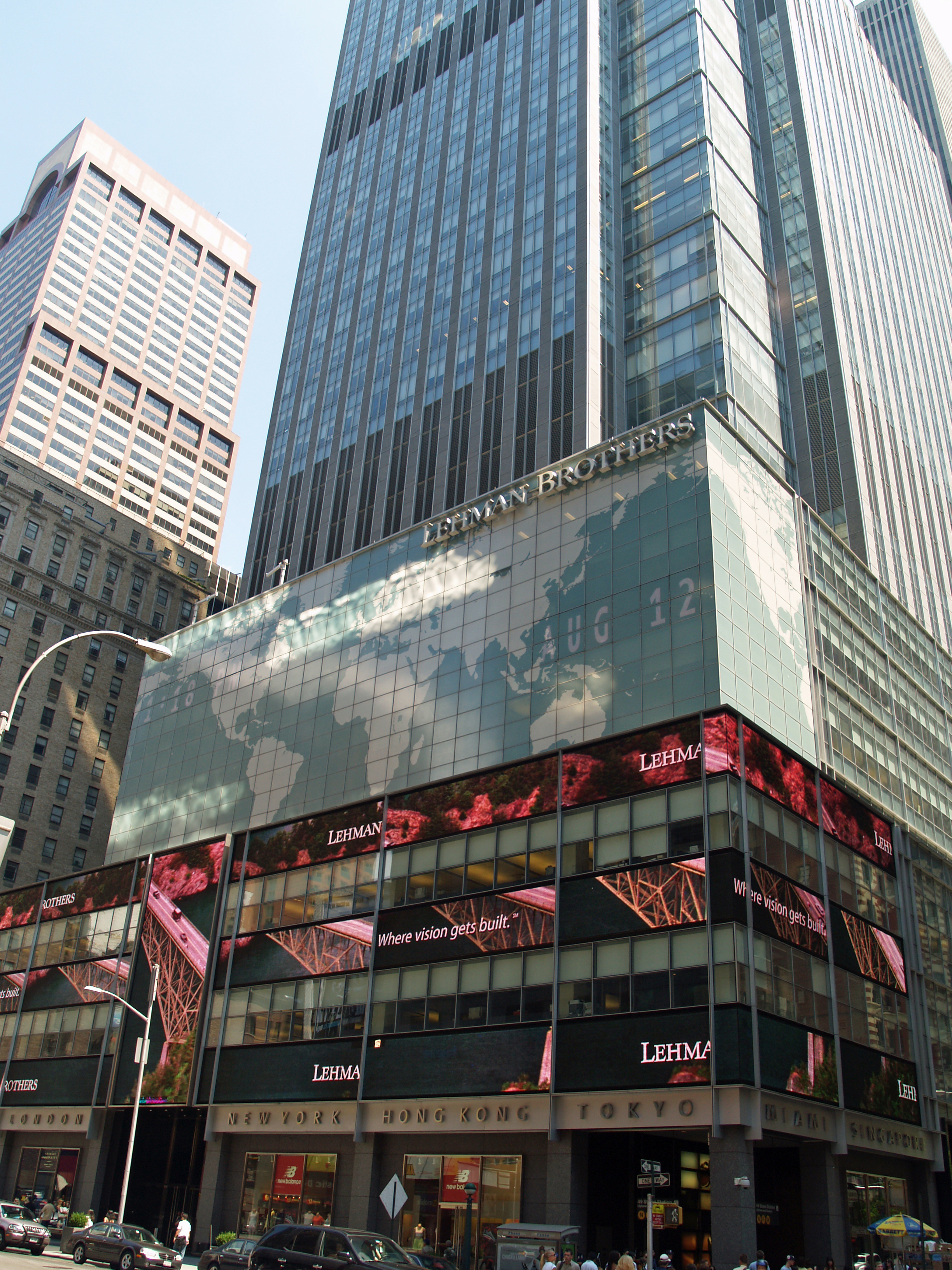 Lehman Brothers Rockefeller centre. The Manhattan headquarters of Lehman Brothers before their bankruptcy in 2008